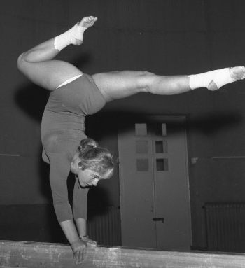 Doris Fuchs at the Rome Olympics